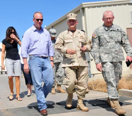 Matt Mead visit Guantanamo. Original caption: Cmdr. John Rhodes walks with Wyo. Gov. Matt Mead and Wyoming National Guard Adjutant General Maj. Gen. Luke Reiner inside Camp 6, Monday during their tour of the detention facilities.